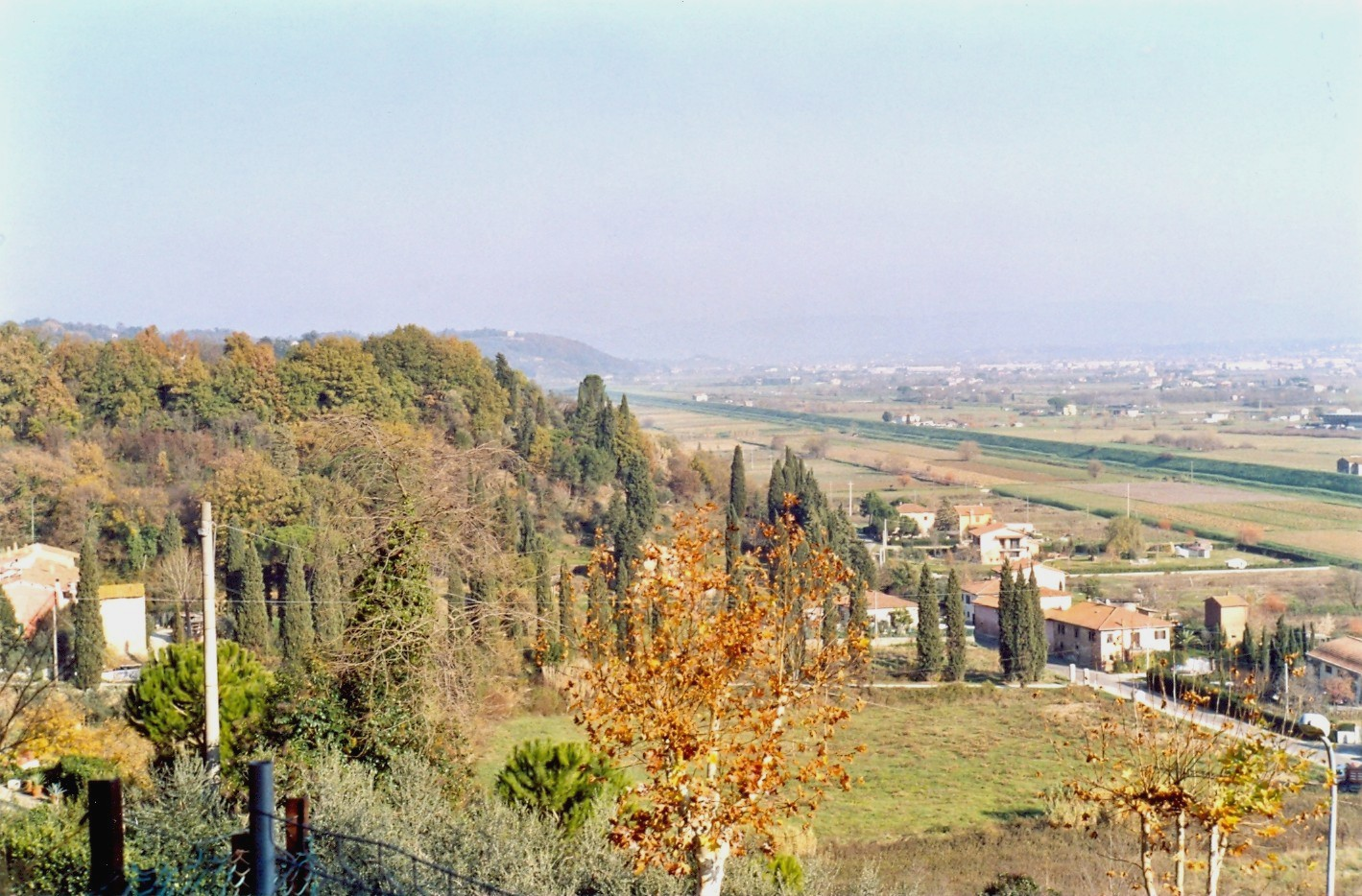 Santa Maria a Monte, Province of Pisa, Italy - View to the "Cerbaie" hills and the Arno valley